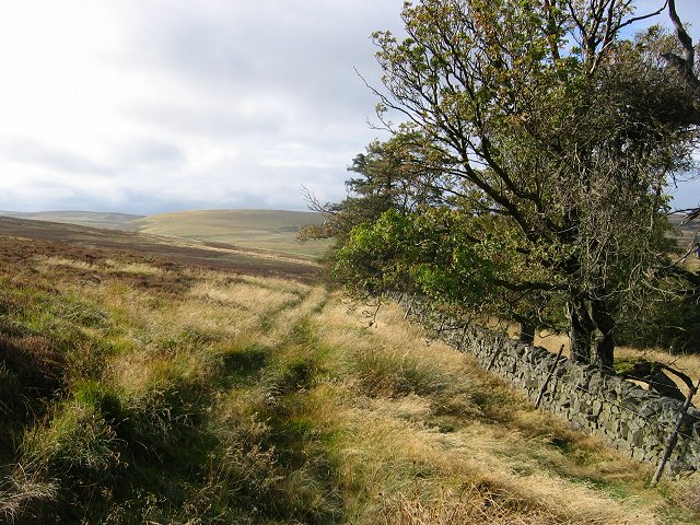 Old woods, Carcant. A grown out woodland full of lots of goodies like oaks and rowans on the edge of the moors above Carcant. The woods have been replanted, amongst the old trees, so the succession is safe. NW view towards Tathieknowe.